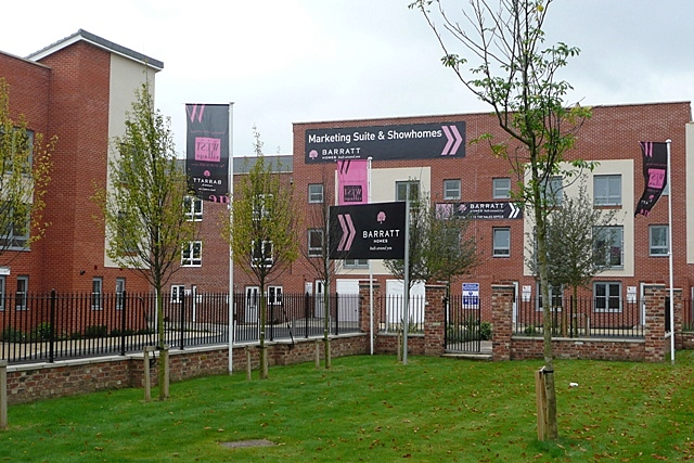 West Village The green area in the centre of West Village, an extensive development by Barratt Homes on the site of the former Battle Hospital.